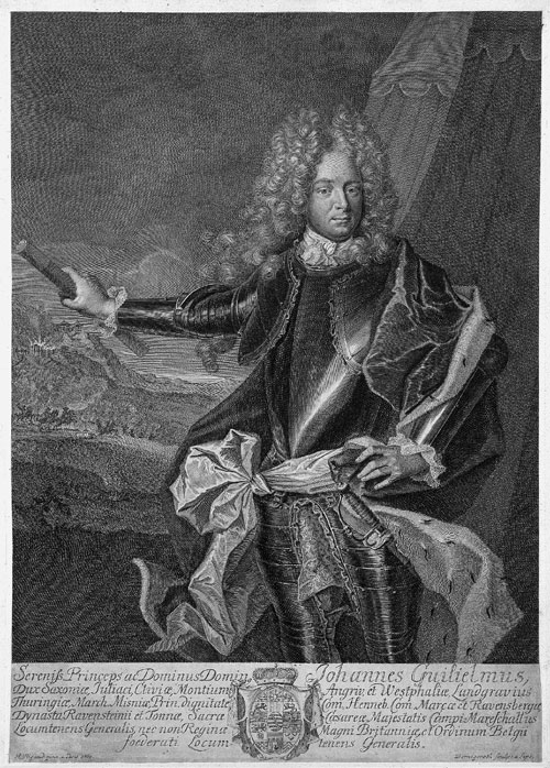 Portrait of Johann Wilhelm of Saxe-Gotha-Altenburg (1677-1707), misidentified with John William III, Duke of Saxe-Eisenach (1666-1729)